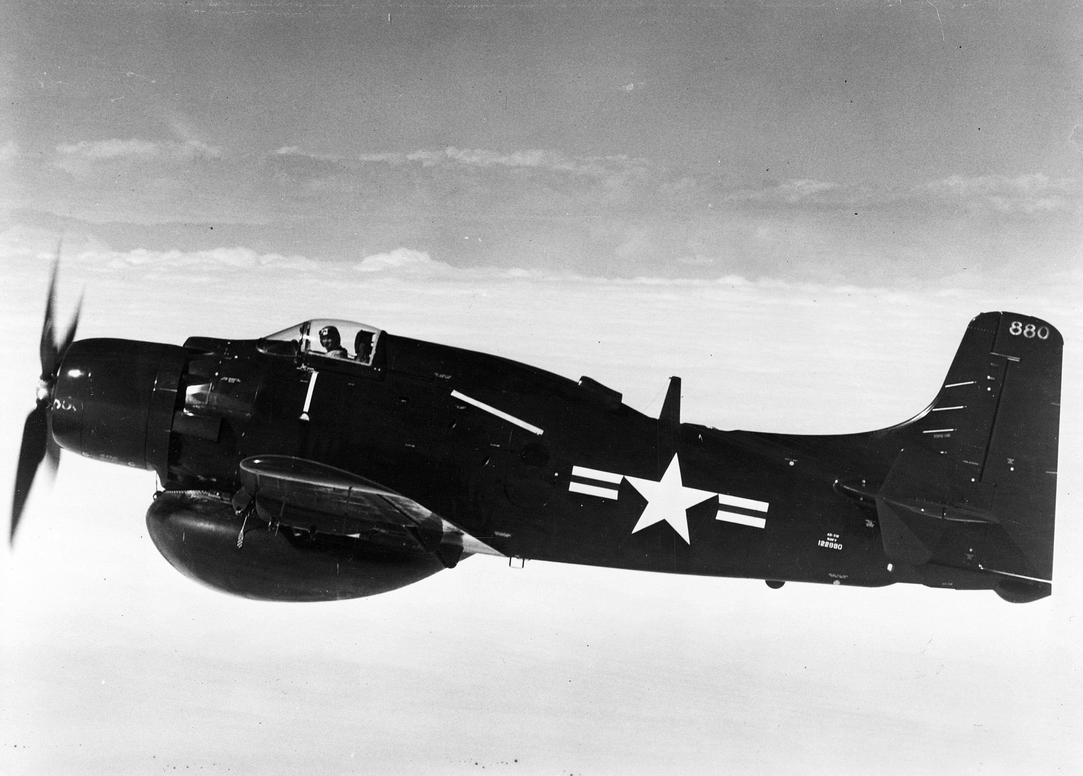 A U.S. Navy Douglas AD-3W Skyraider early warning plane (BuNo 122880) in flight in the early 1950s.